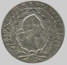 20 Kreuzer coin with the profile of Frederick Christian, Margrave of Brandenburg-Bayreuth